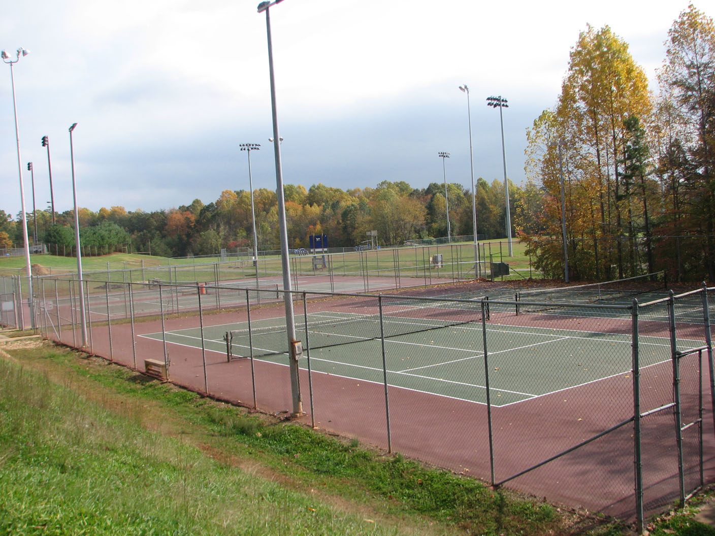 Photo of sport facilities at Western Albemarle High School in Crozet, Virginia, taken in October, 2006, by RebelAt.